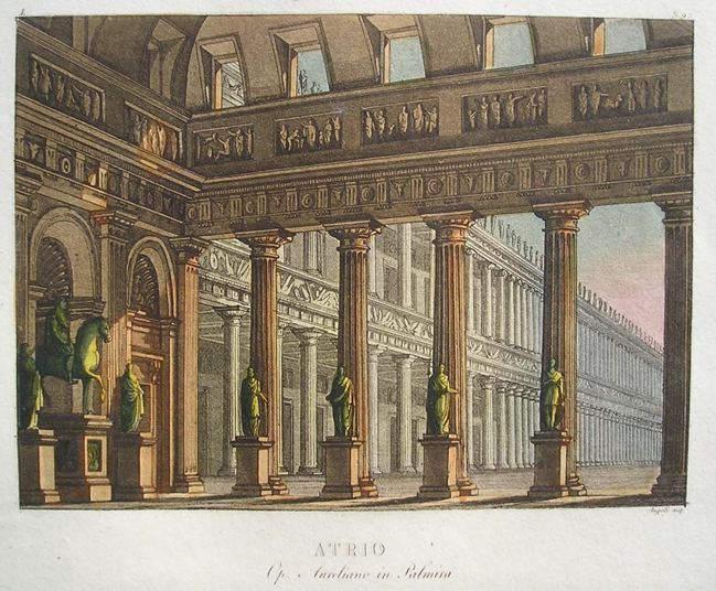 A stage setting for Act I of Aureliano in Palmira. Aquatint and watercolour. Artist: Paolo Landriani (1755 - 1839) Engraver/Publisher: Stanislao Stucchi Source: Archivi di Teatro Napoli